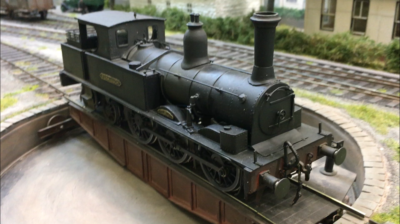 The model of a Beyer, Peacock and Company 0-6-4T built for Sligo, Leitrim and Northern Counties Railway in 1882. This locomotive carries the name 'Fermanagh""